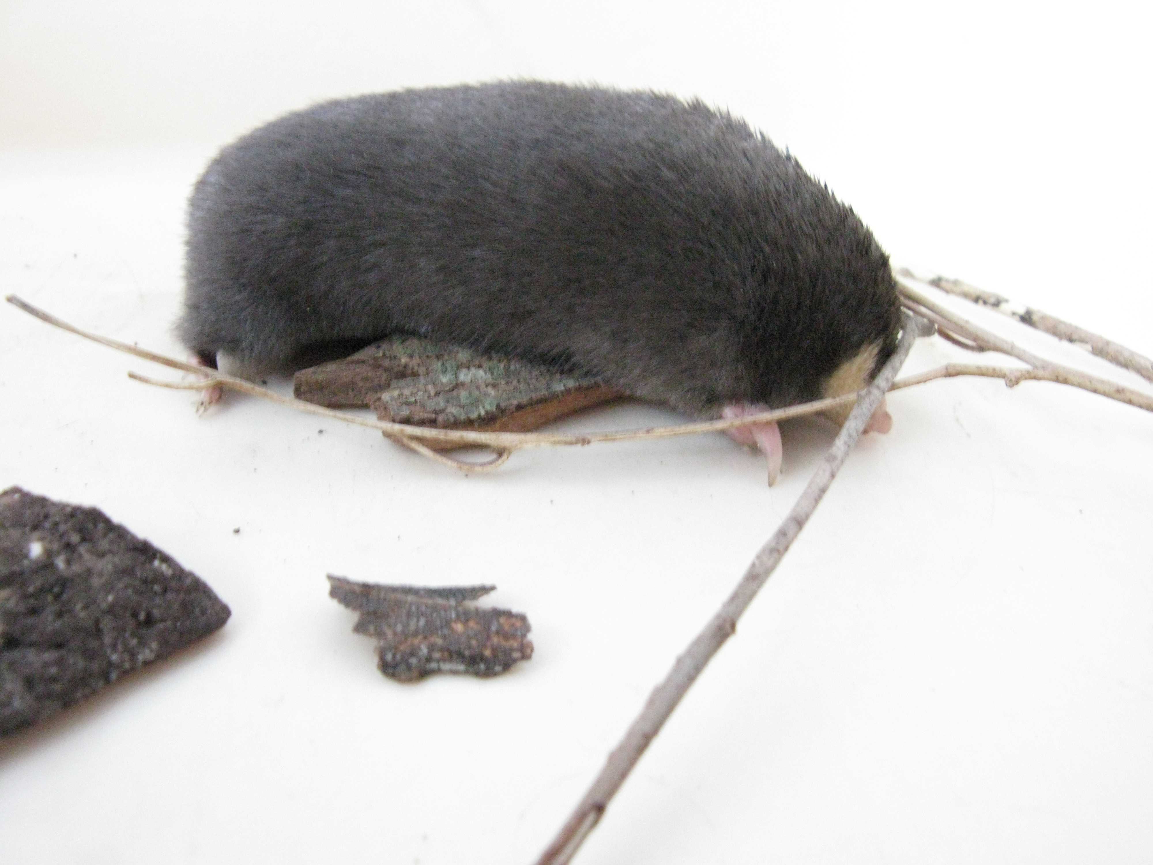 Chrysochloris asiatica Cape golden mole adult above ground